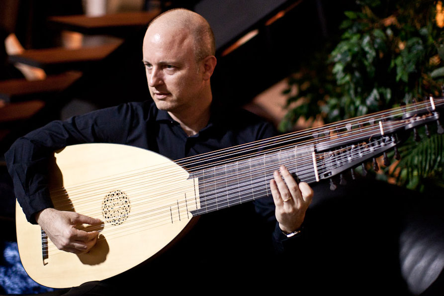 Robert Stone